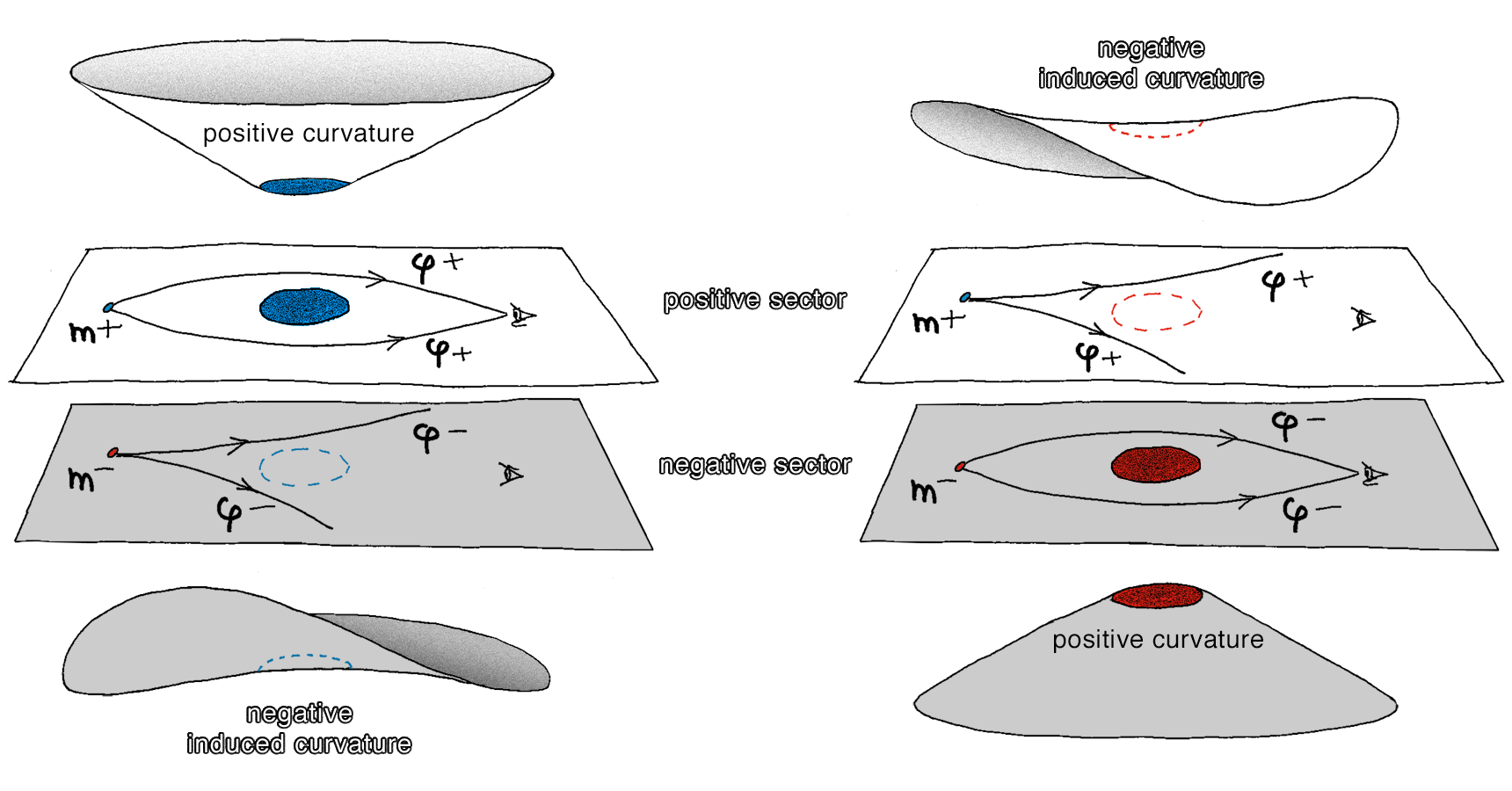 • LEFT: A large mass (blue) belongs to the positive sector where it creates a positive curvature. It also produces a positive gravitational lensing effect on the image of a distant positive mass m(+), making photons of positive energy φ(+) converging around the large mass. This large positive mass induces on the contrary a negative curvature in the negative sector. Hence, although being invisible, its apparent mass in the negative sector is felt as if it was negative. • RIGHT: a large mass (red) belongs to the negative sector where it creates a positive curvature. Such a mass being in the negative sector, it appears as being invisible but induces a negative curvature in the positive sector. It produces a negative gravitational lensing effect on the image of a distant little mass m(+), making photons of positive energy φ(+) diverging around the invisible but apparent large negative mass.